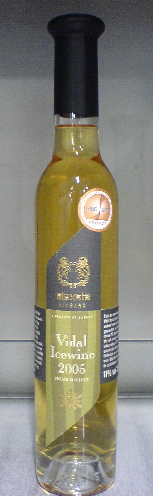 Vidal Icewine 2005 from Blaxsta vingård, a Swedish vineyard